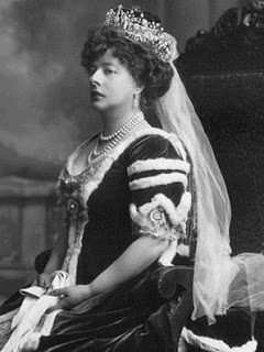 Florence Sheridan, wife of Augustus Bampfylde, 2nd Baron Poltimore (1837–1908), wearing her peeress robes with the Poltimore Tiara made for her in the 1870's by Garrards. It was sold at auction by the 4th Baron for £5,500. On the advice of Patrick Plunkett, Deputy Master of the Household, it was purchased for Princess Margaret prior to the official announcement of her engagement to Antony Armstrong-Jones, and was worn by her at her wedding in Westminster Abbey. It was sold in 2006 at Christie's, by her children Viscount Linley and Lady Sarah Chatto for £926,400 to an Asian buyer.